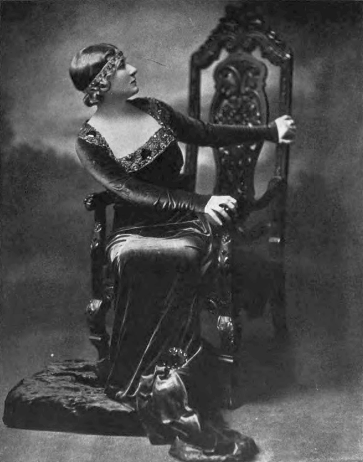 Mary Garden in the title role of Massenet's opera Sapho, which she performed at the The Manhattan Opera House in November 1909